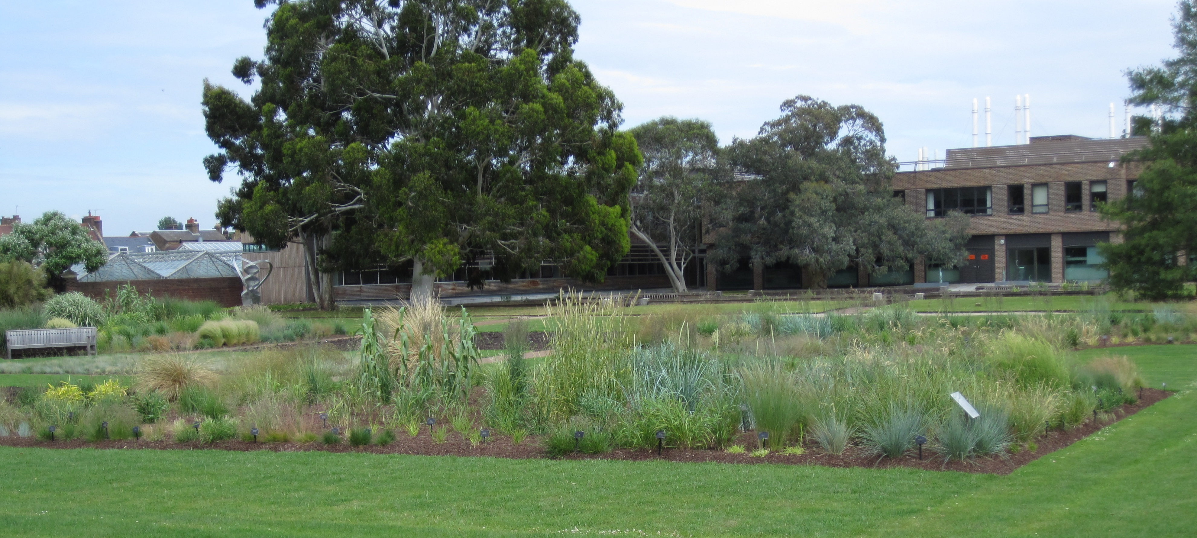 View of the Jodrell laboratory across part of the grass collection at Kew